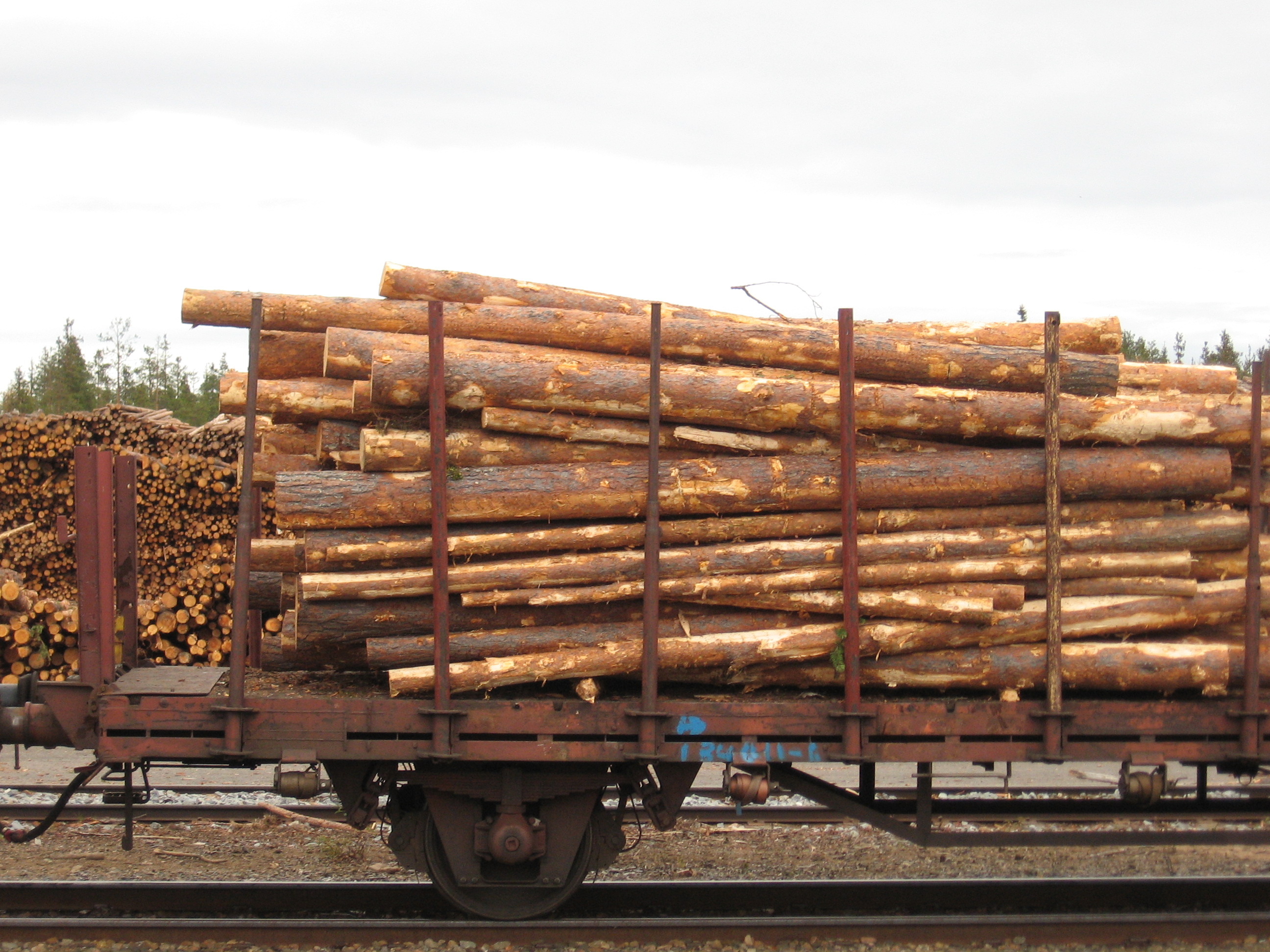 Pine lumber wagon at Kolari railway station